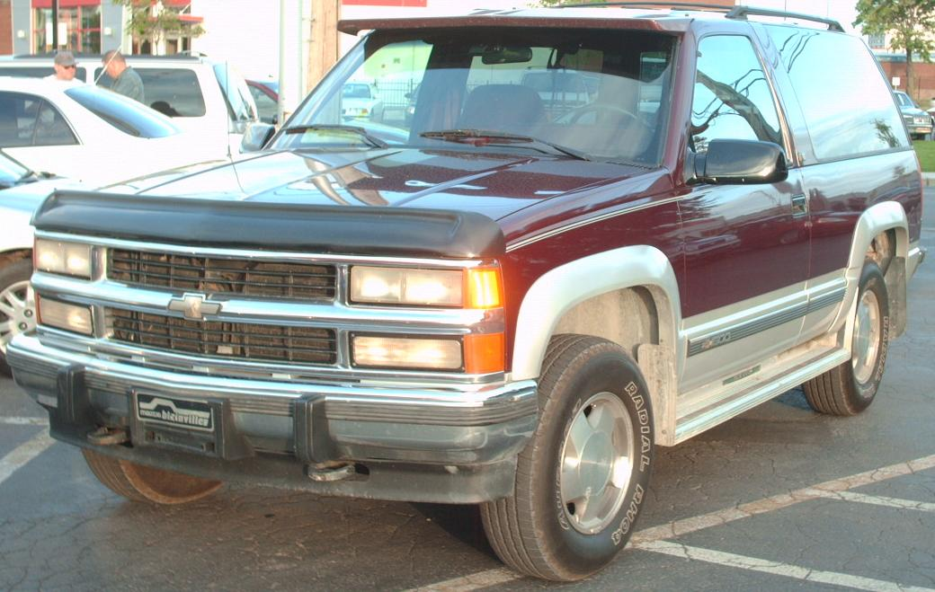 1992-1994 Chevrolet K5 Blazer photographed in Montreal, Quebec, Canada at Gibeau Orange Julep.